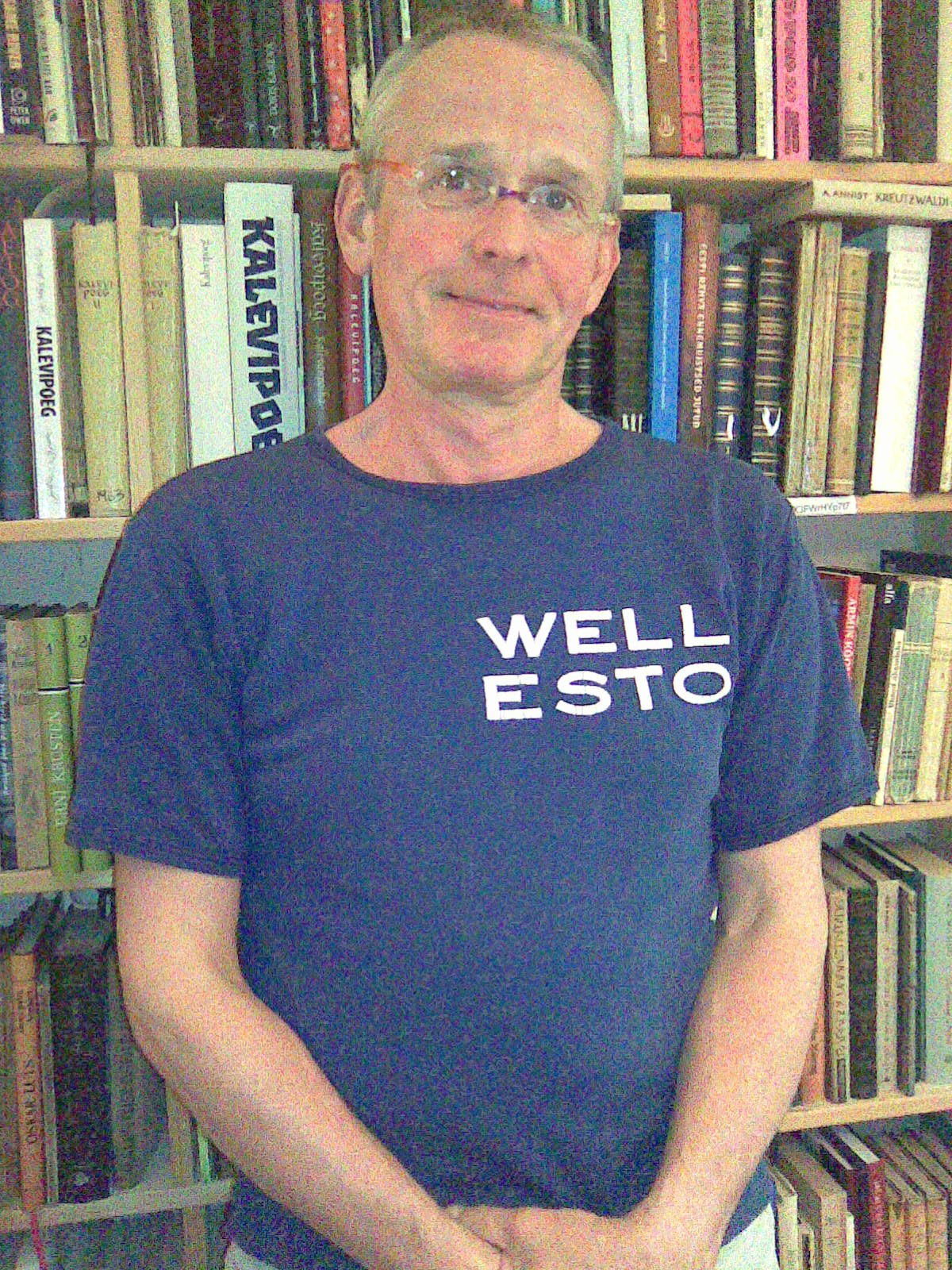 Wellesto shirt, 1989